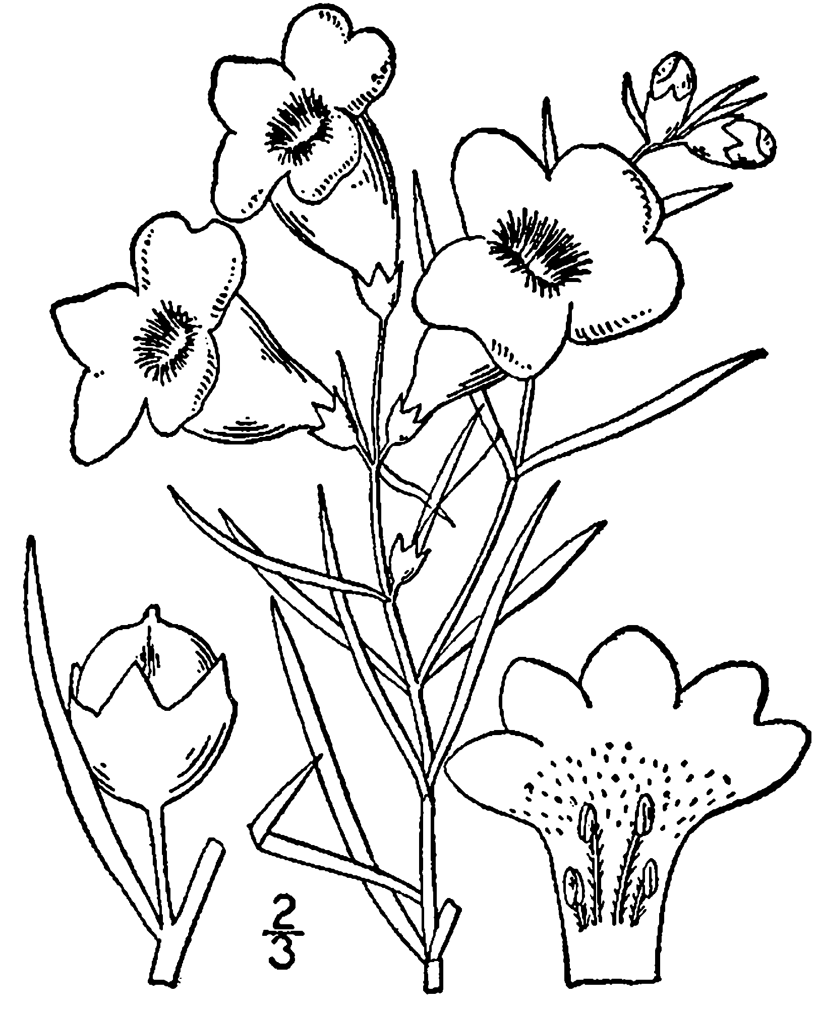 Purple False Foxglove. Drawing.